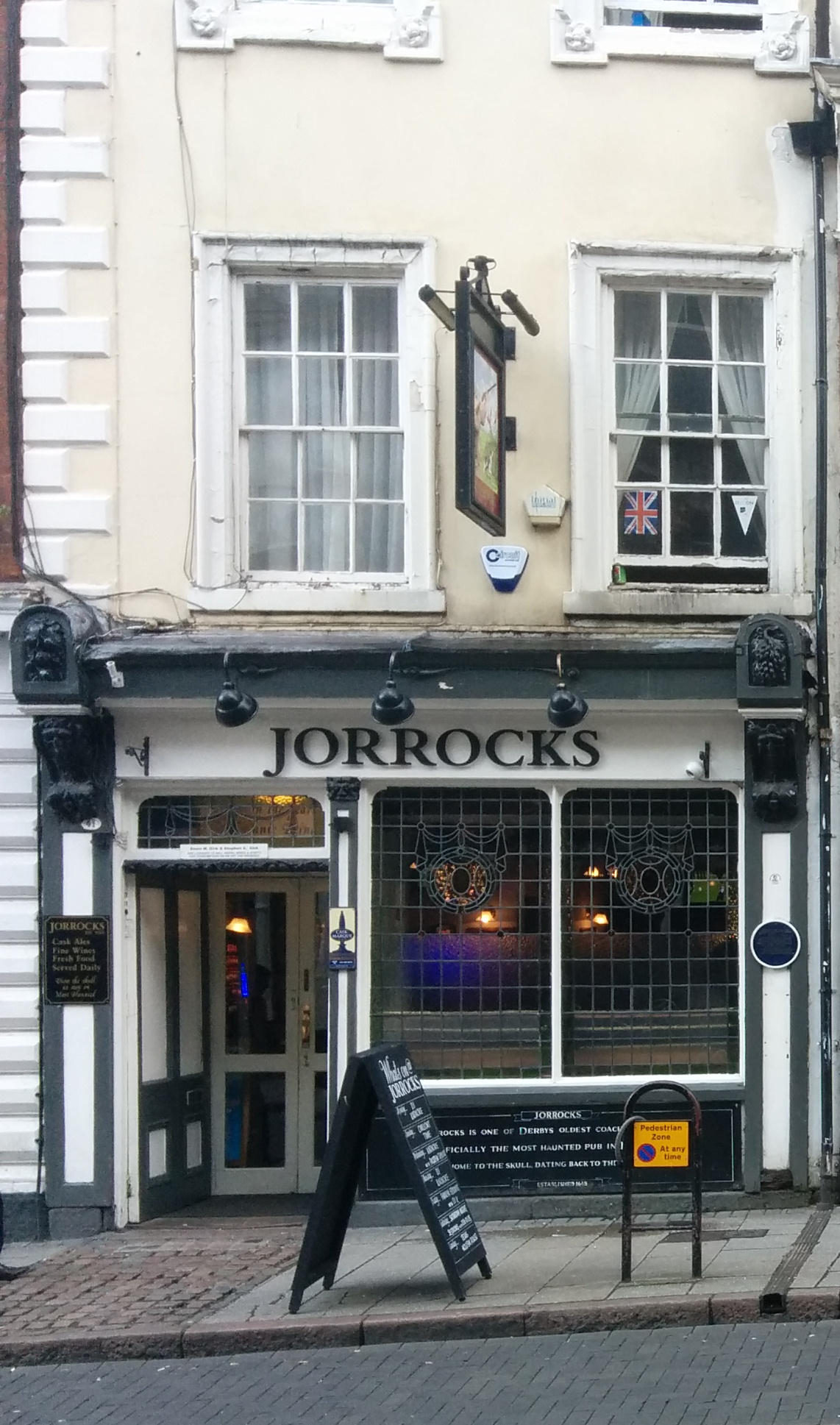 Iron Gate Derby Shops Jorrocks Foulds etc